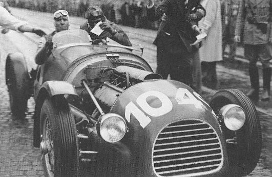 Entry #1049 at Mille Miglia on 2–3 May 1948 was the 1948 Ferrari 166 C s/n 006i driven by Tazio Nuvolari and Sergio Scapinelli, they did not finish. [1]